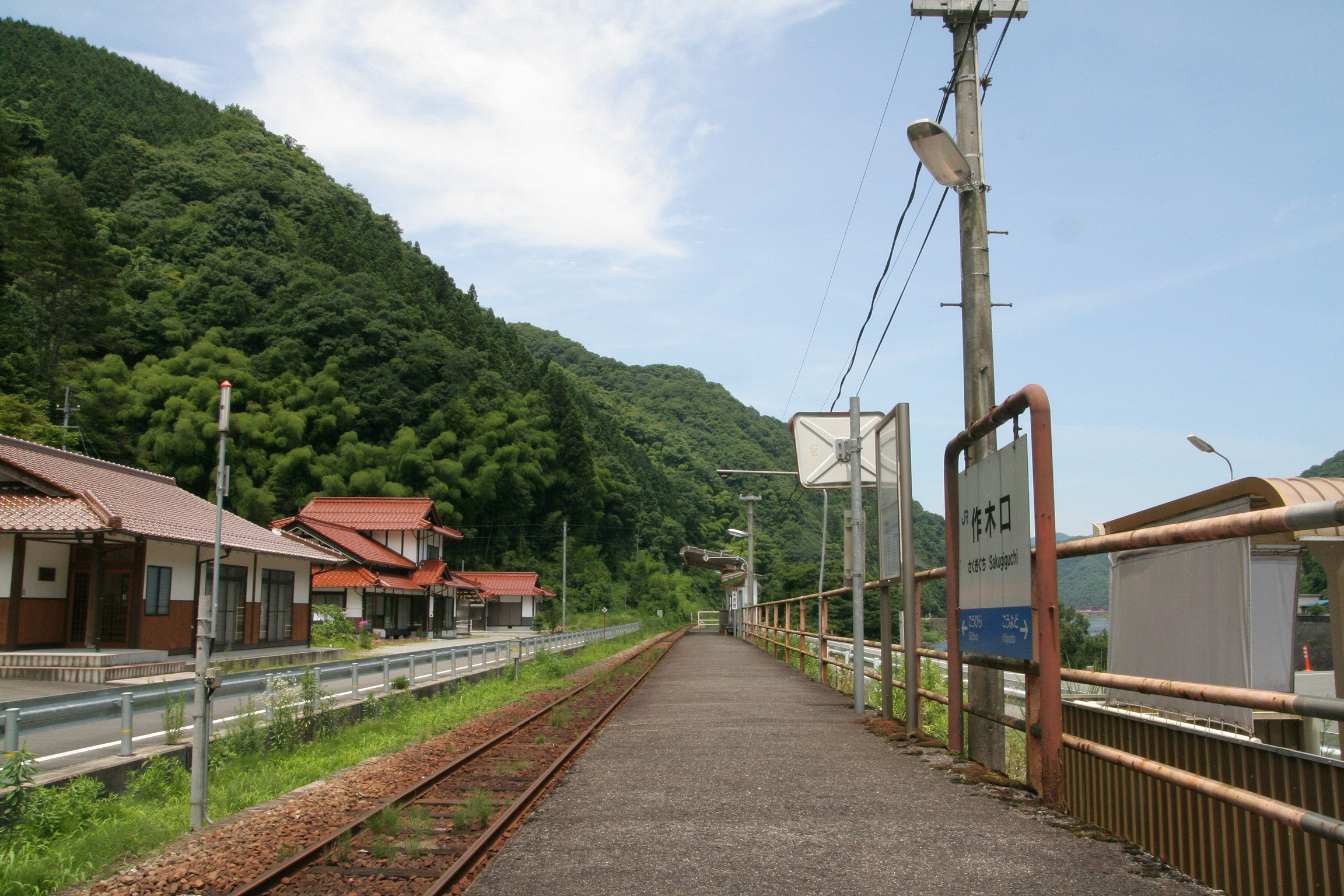 West Japan Railway Sanko Line sakugiguchi Station enclosure